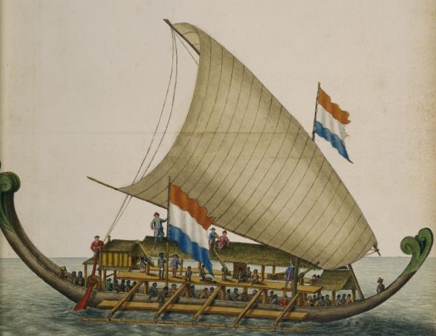 A kora-kora with mainsail Kora-koras were the most used vessels in the Moluccas. They were approximately ten meters long, very narrow ships that were used for both trade and warfare. From the Atlas Blaeu-Van der Hem.